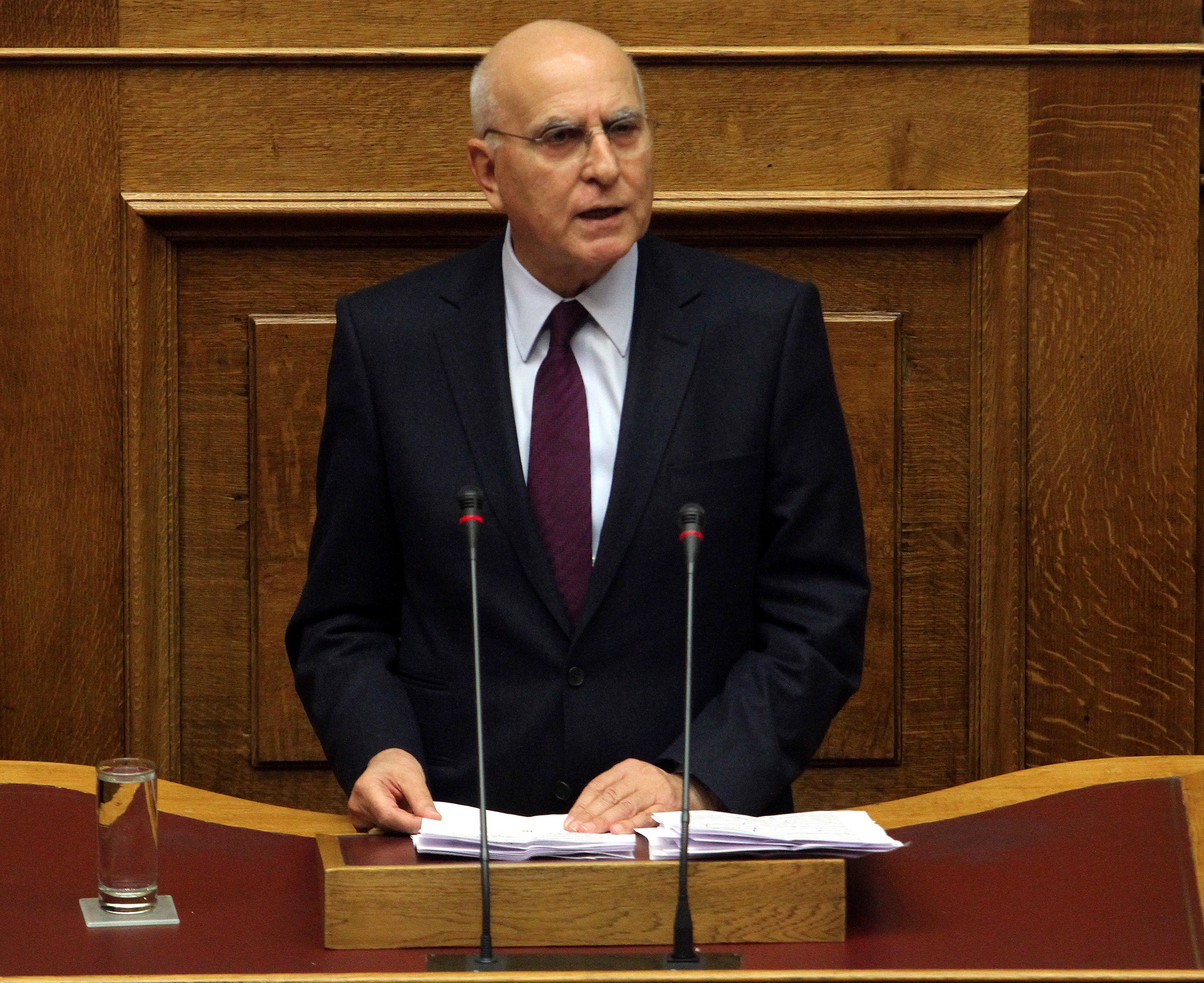 Foreign Minister Stavros Dimas speaking in the parliament during a debate on the vote of confidence in the government 16 November 2011.